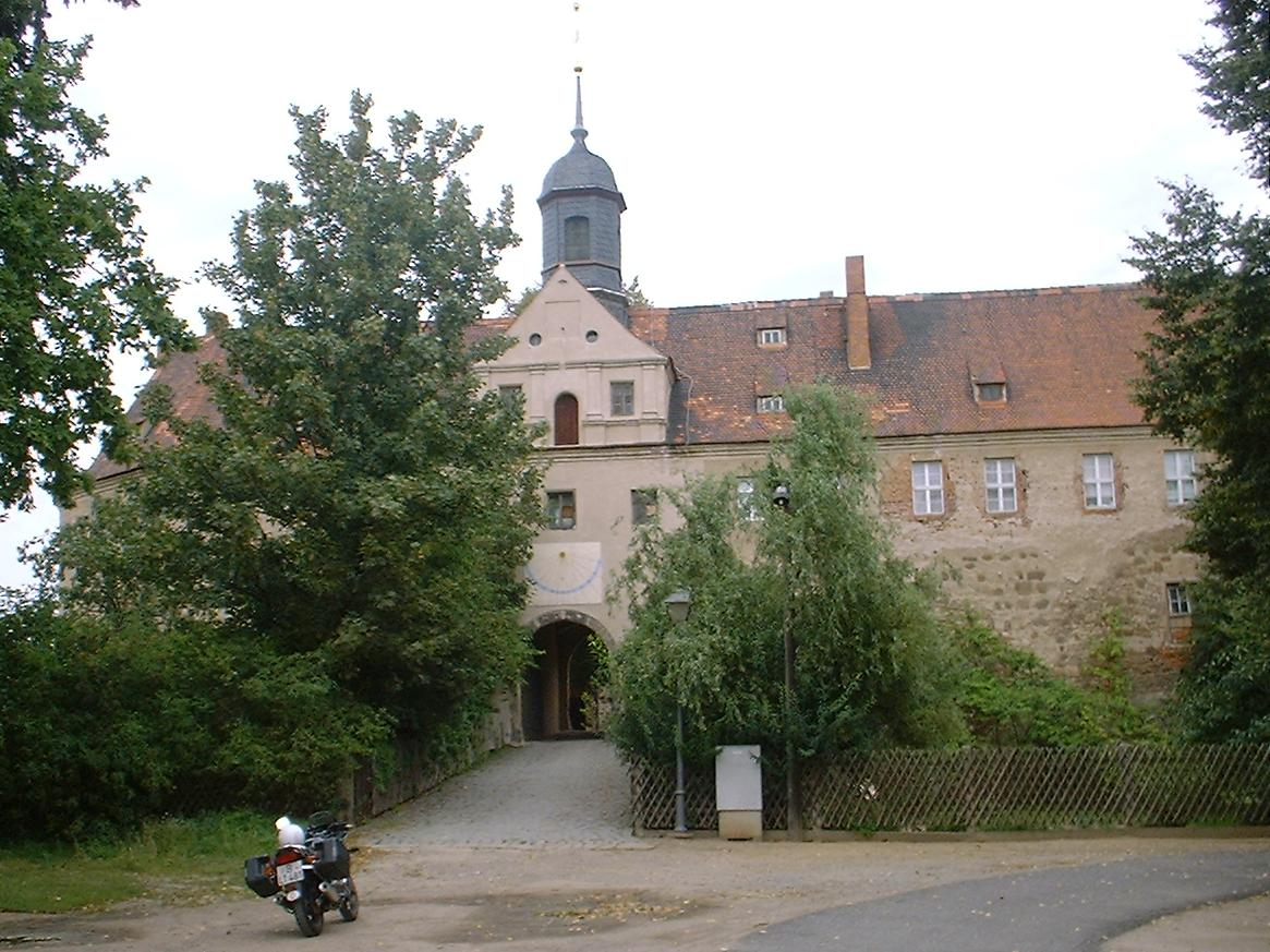 Castle in Mühlberg in Brandenburg, Germany